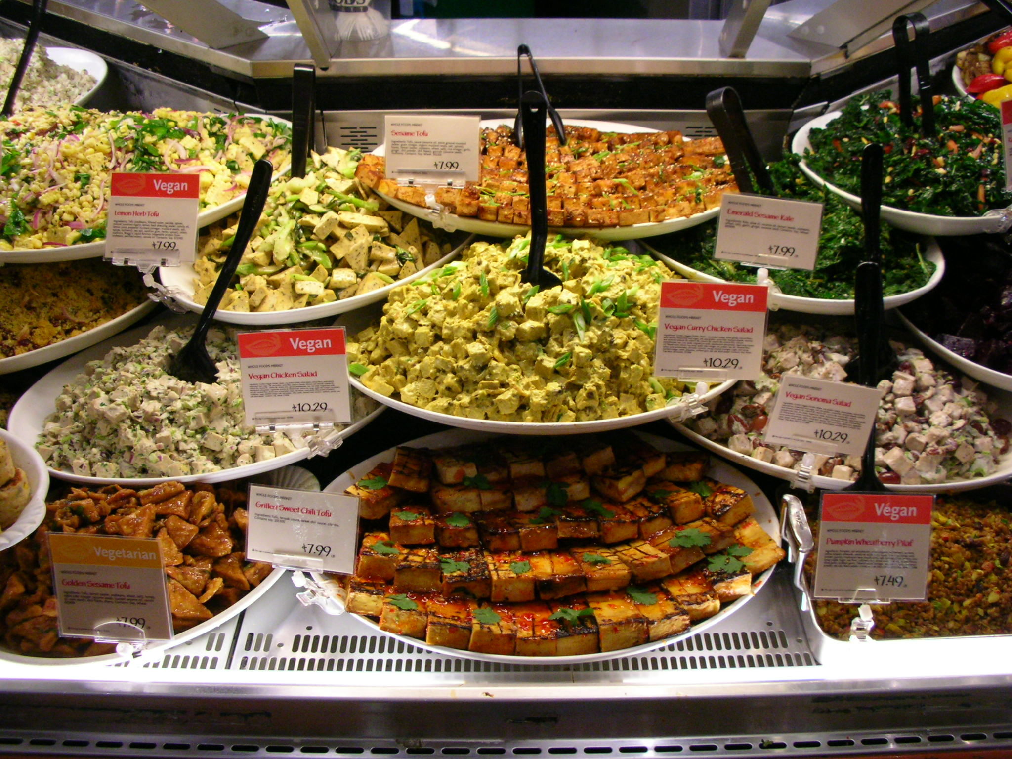 Lemon Herb Tofu, Sesame Tofu Sticks, Emerald Kale, Gardein Chicken Salad, Gardein Curry Chicken Salad, Gardein Sonoma Chicken Salad, Golden Sesame Tofu, Grilled Sweet Chili Tofu, and Pumpkin Wheatberry Pilaf